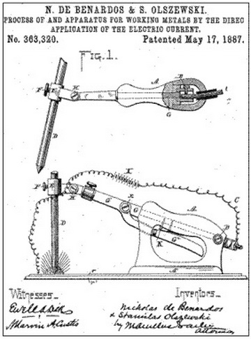 N.N.Benardosa's patent for a way of arc electric welding "Electrogefest"